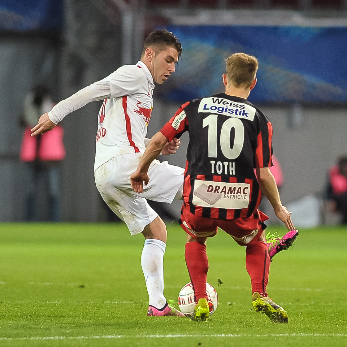 ÖFB Samsung Cup-Finale - FC Admira Wacker Mödling vs FC Red Bull Salzburg am 19. Mai 2016 in Klagenfurt. Bild zeigt Jonatan Soriano Casas (RBS) und Daniel Toth (ADM).